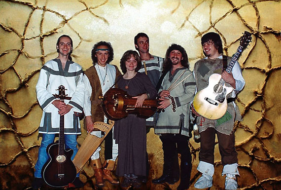 Raznotravie - Russian folk-rock group